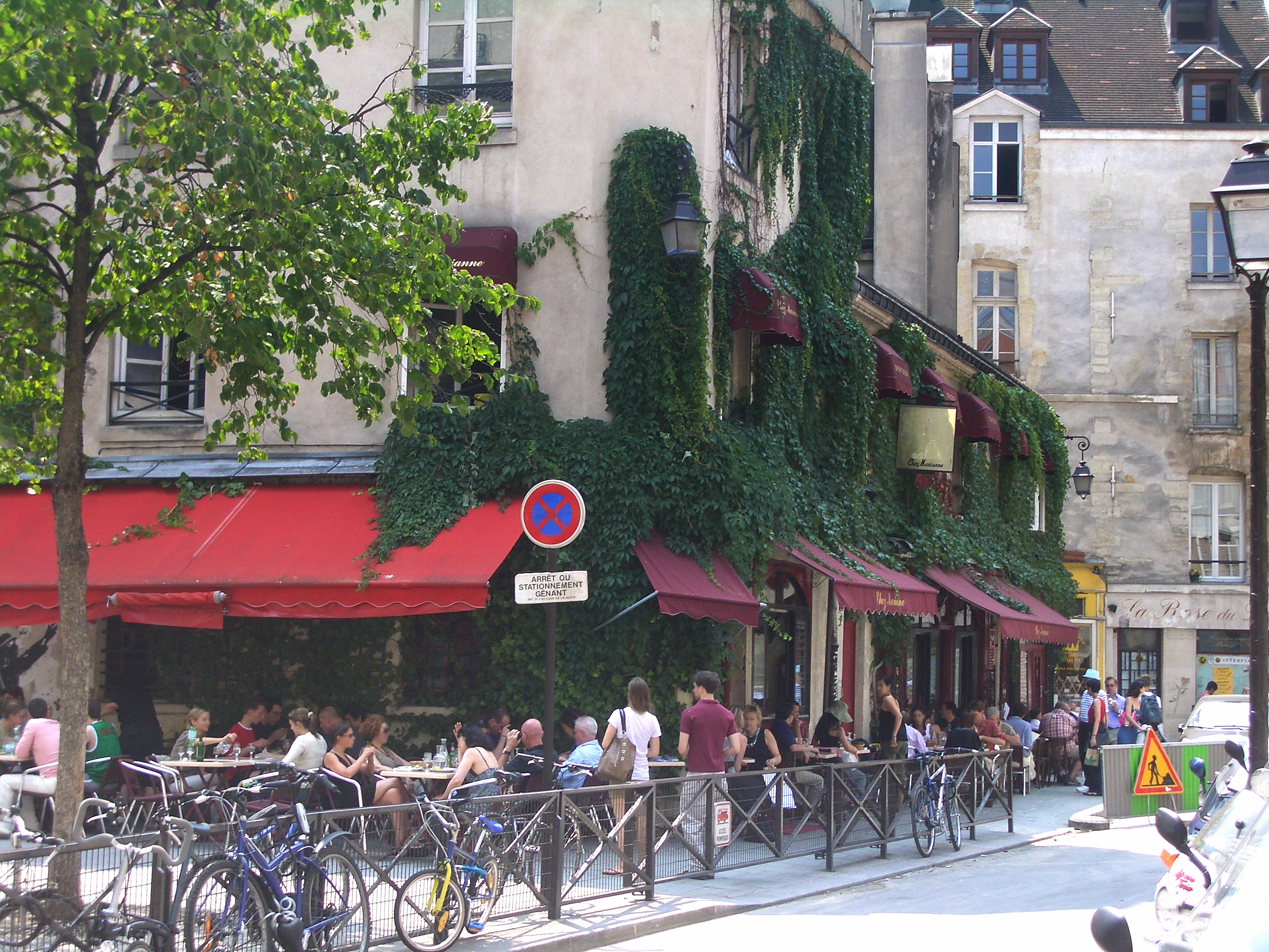 Chez Marianne, a fixture of the Marais neighborhood, 2 Rue des Hospitalières Saint-Gervais, 75004 Paris, France.